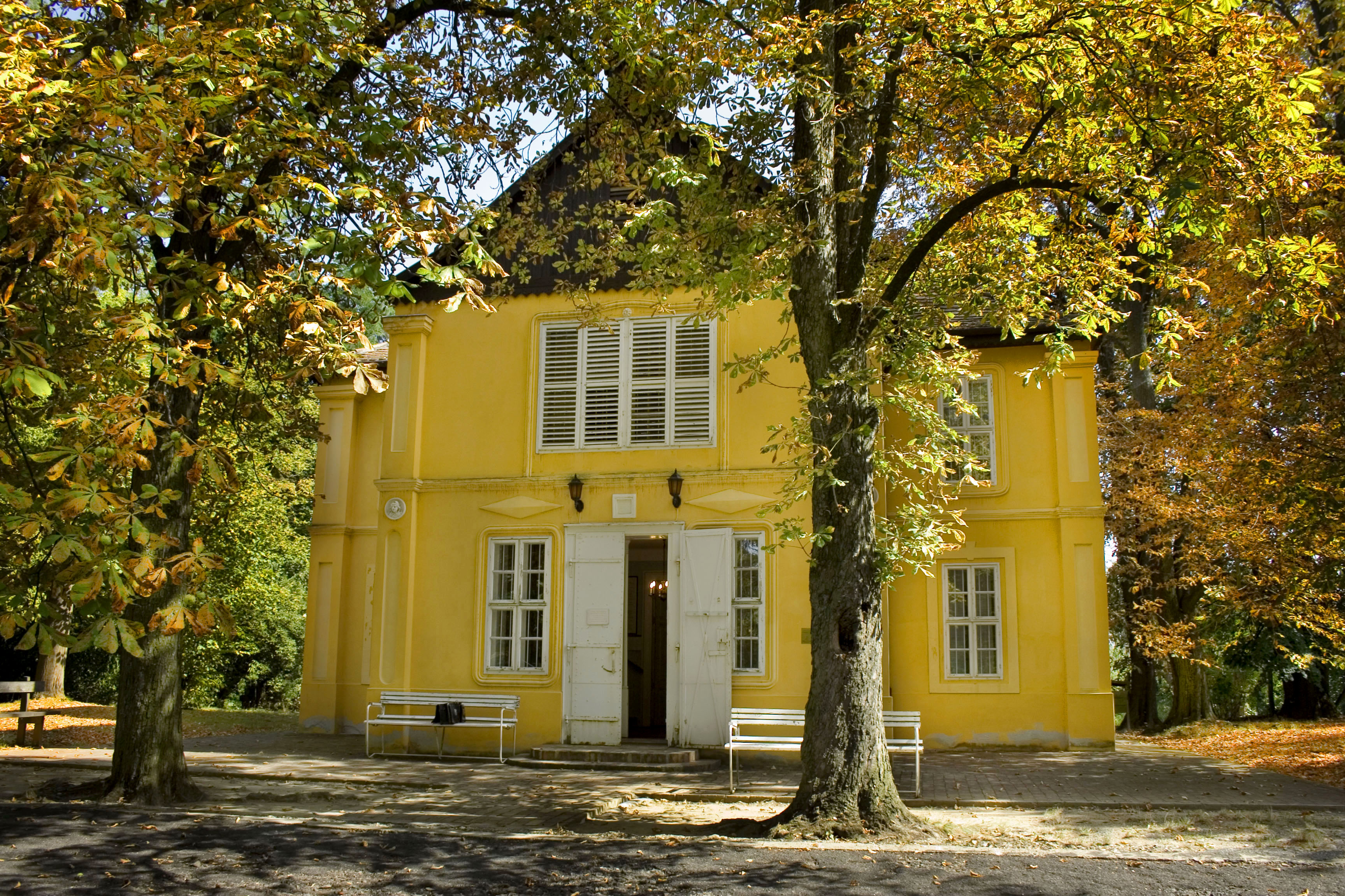 House of the József Rippl-Ronai, Kaposvar, Hungary